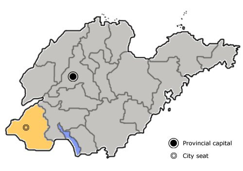 The prefecture-level city of Heze is highlighted on this map of Shandong province, People's Republic of China.